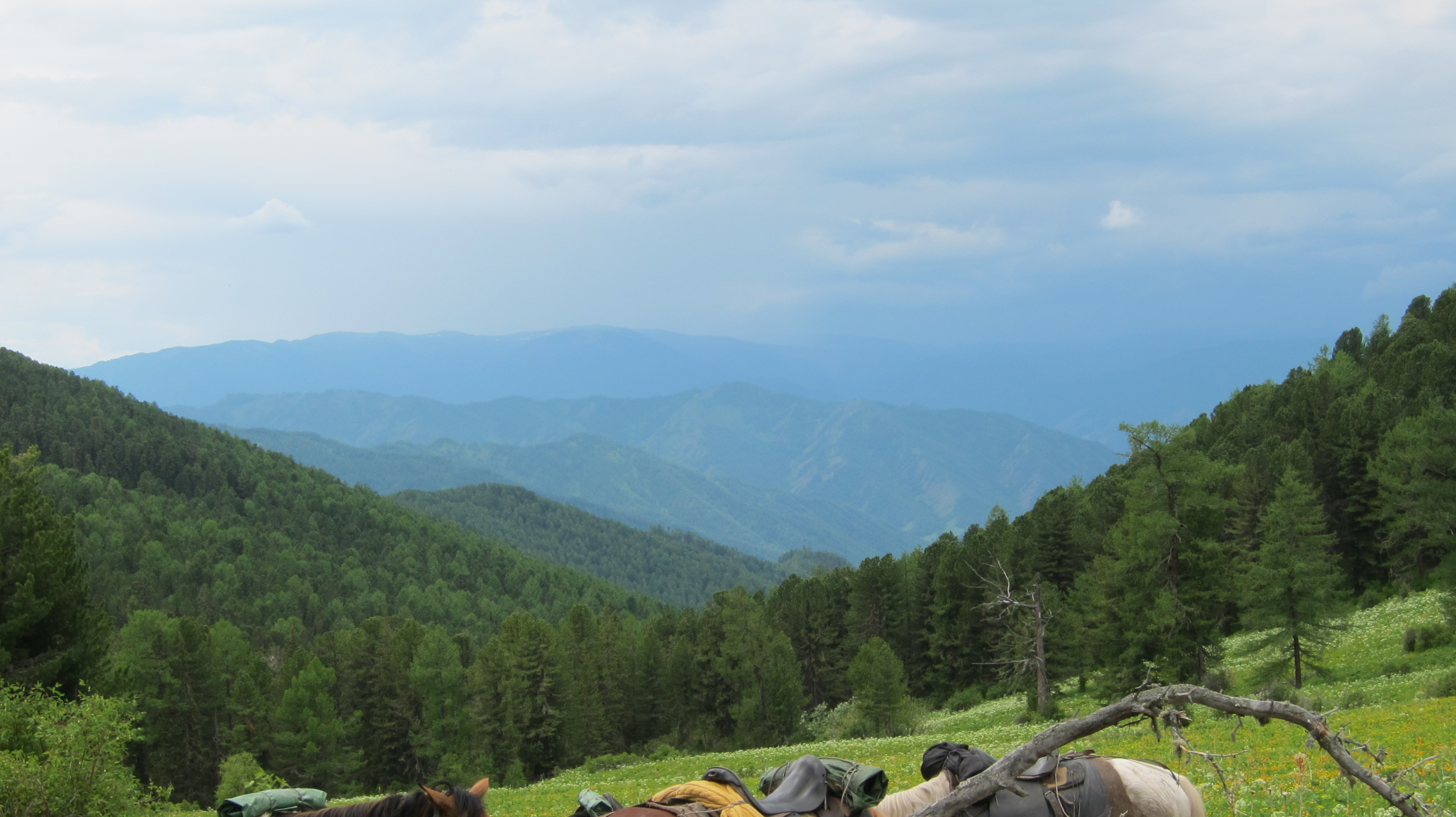 View on Seminsky Range from Kuminskiye Belki Range in Chemalsky District of the Altai Republic